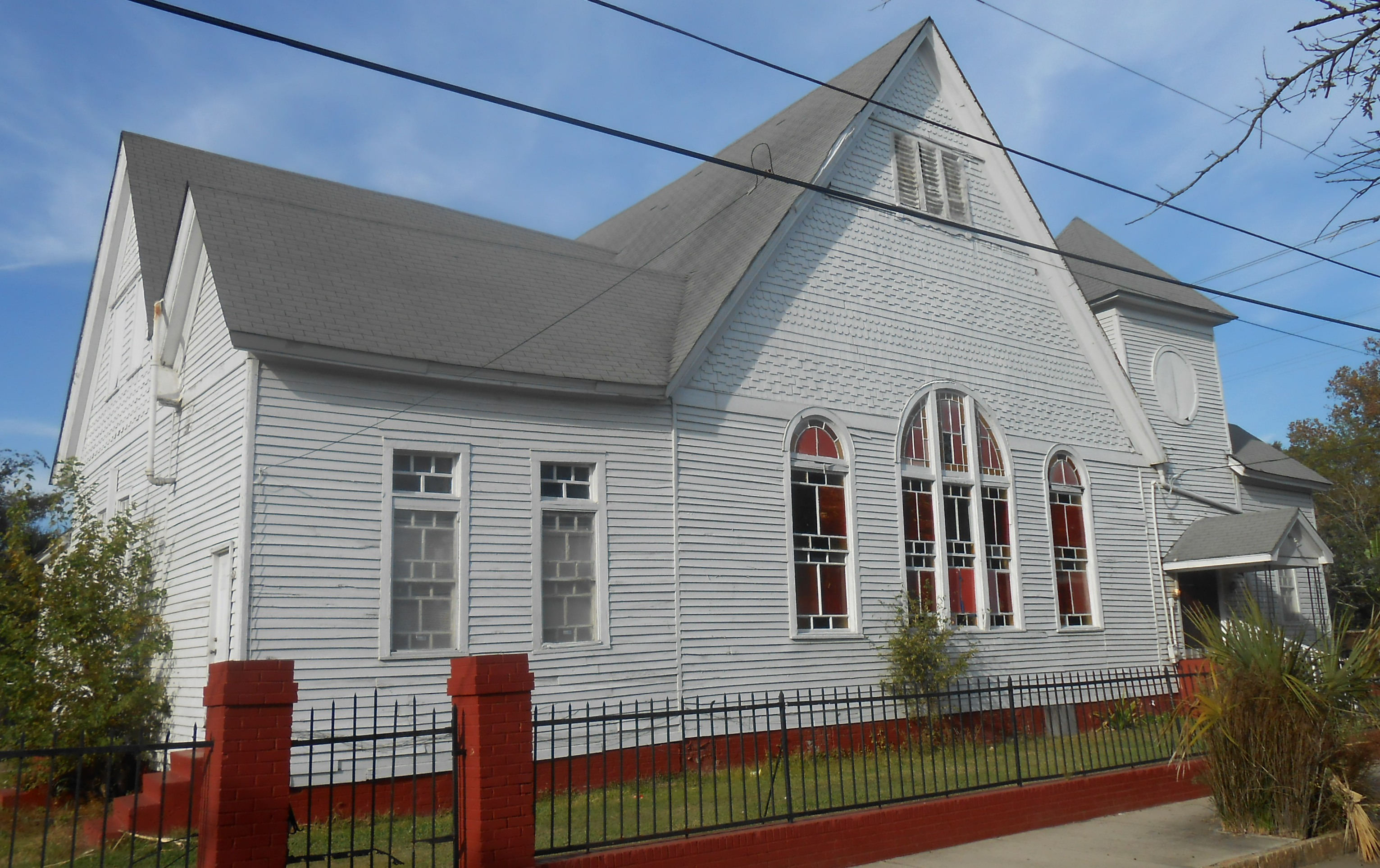 50 Cooper St., Charleston, South Carolina